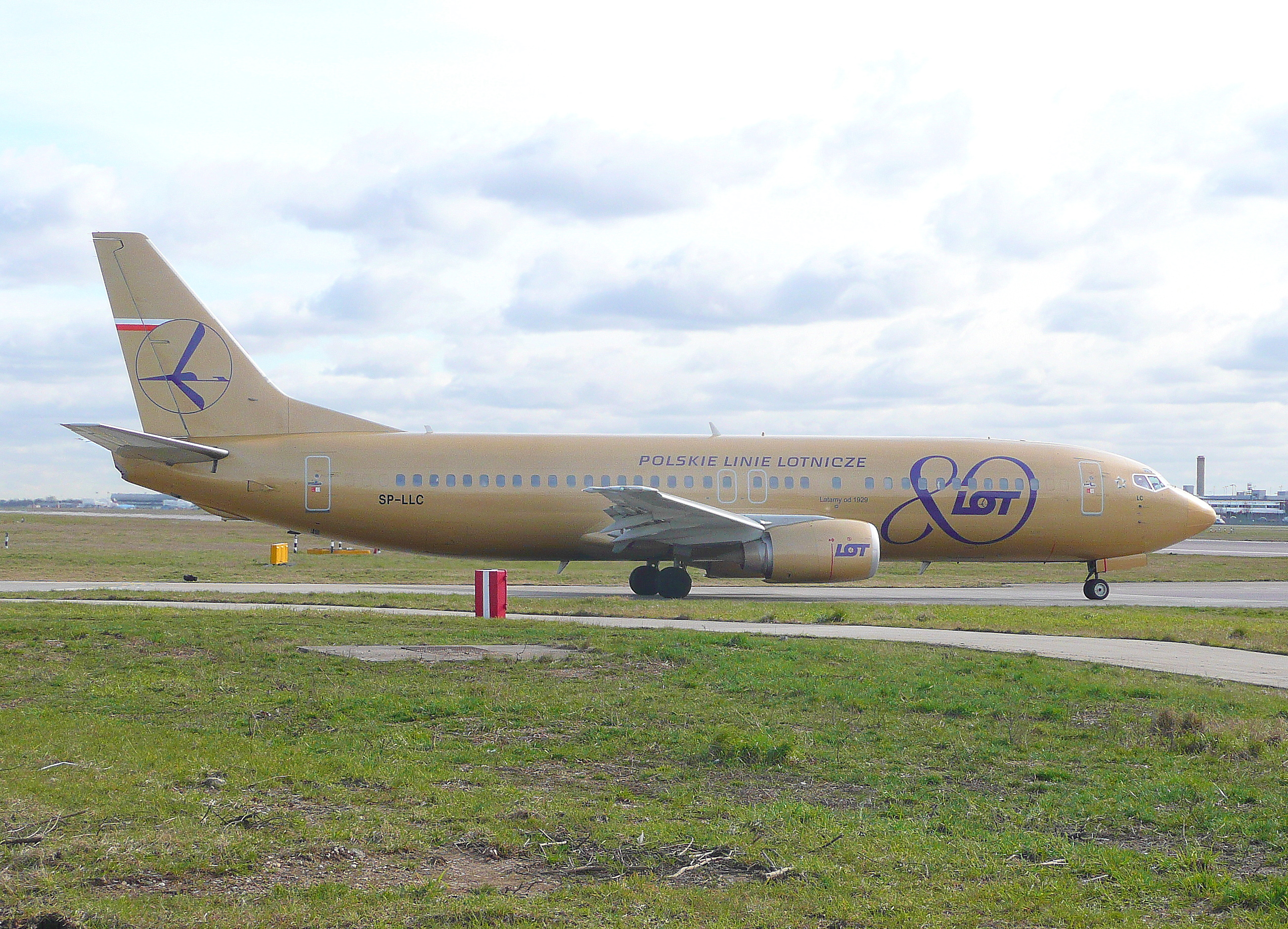 SP-LLC B734 LOT about to line up on 09R.